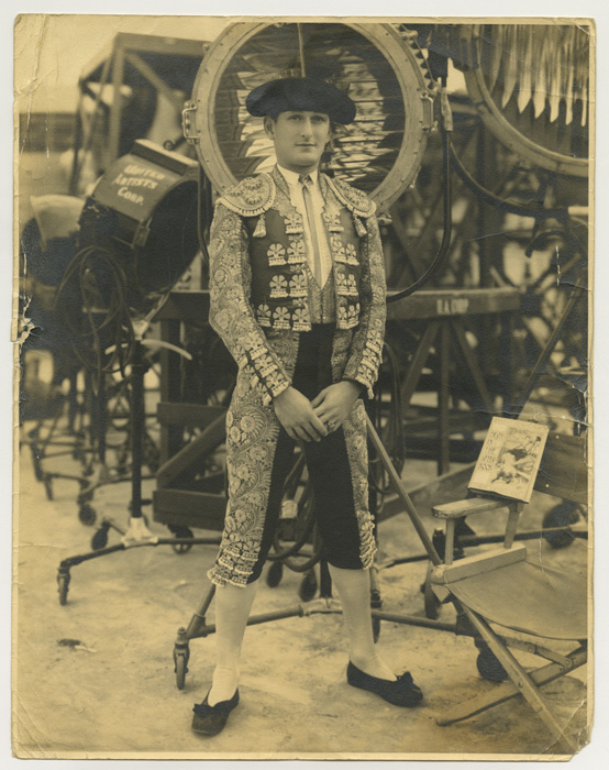 Description: Sidney Franklin standing on the set of 'The Kid from Spain,' 1932. Sidney Franklin (1903-1976), was a Brooklyn-born Jewish bullfighter who is also known for his close friendship with Ernest Hemingway. Creator/Photographer: unknown Medium: black-and-white photographic print Date: 1932 Persistent URL: Finding aid with more information: Repository: American Jewish Historical Society Parent Collection: Sidney Franklin (1903-1976) Collection, 1923-1976, 2001 (bulk 1923-1958) Call Number: P-894 Rights Information: No known copyright restrictions; may be subject to third party rights. For more copyright information, click here. See more information about this image and others at CJH Digital Collections. To inquire about rights and permissions, or if you have a question regarding the collection to which the image belongs, please contact the Reference Department of the American Jewish Historical Society by email. Digital images created by the Gruss Lipper Digital Laboratory at the Center for Jewish History.